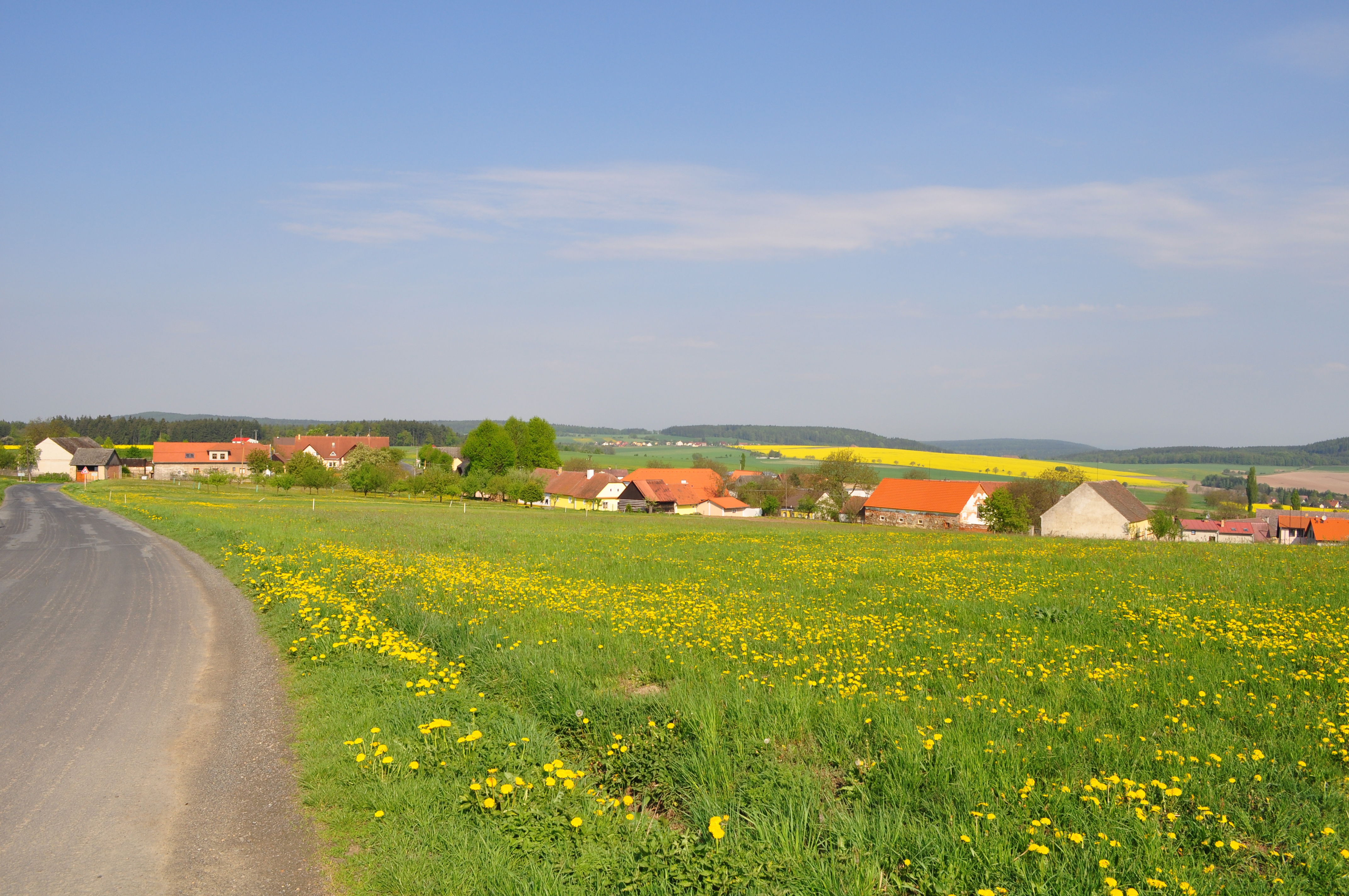 Nevid - Panorama